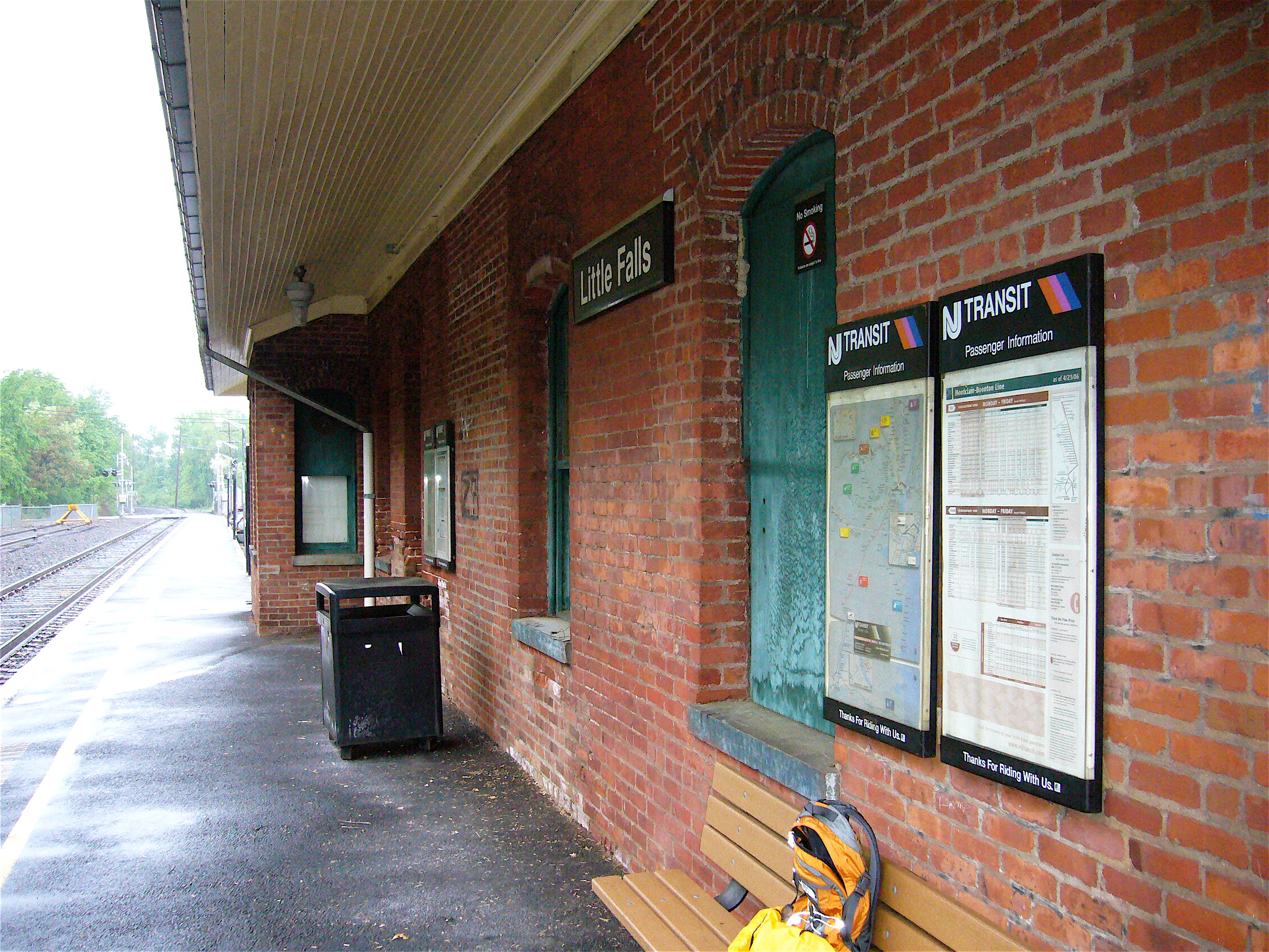 Little Falls New Jersey Transit station.